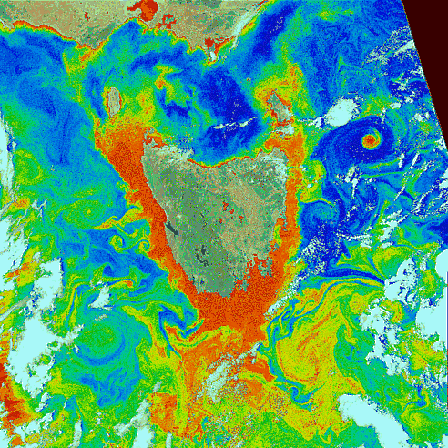 Coastal Zone Color Scanner image of Tasmania and surrounding waters. False coloration of oceans indicates ocean color (phytoplankton concentration). Yellows and reds indicate more phytoplankton, and greens and blues indicate less.